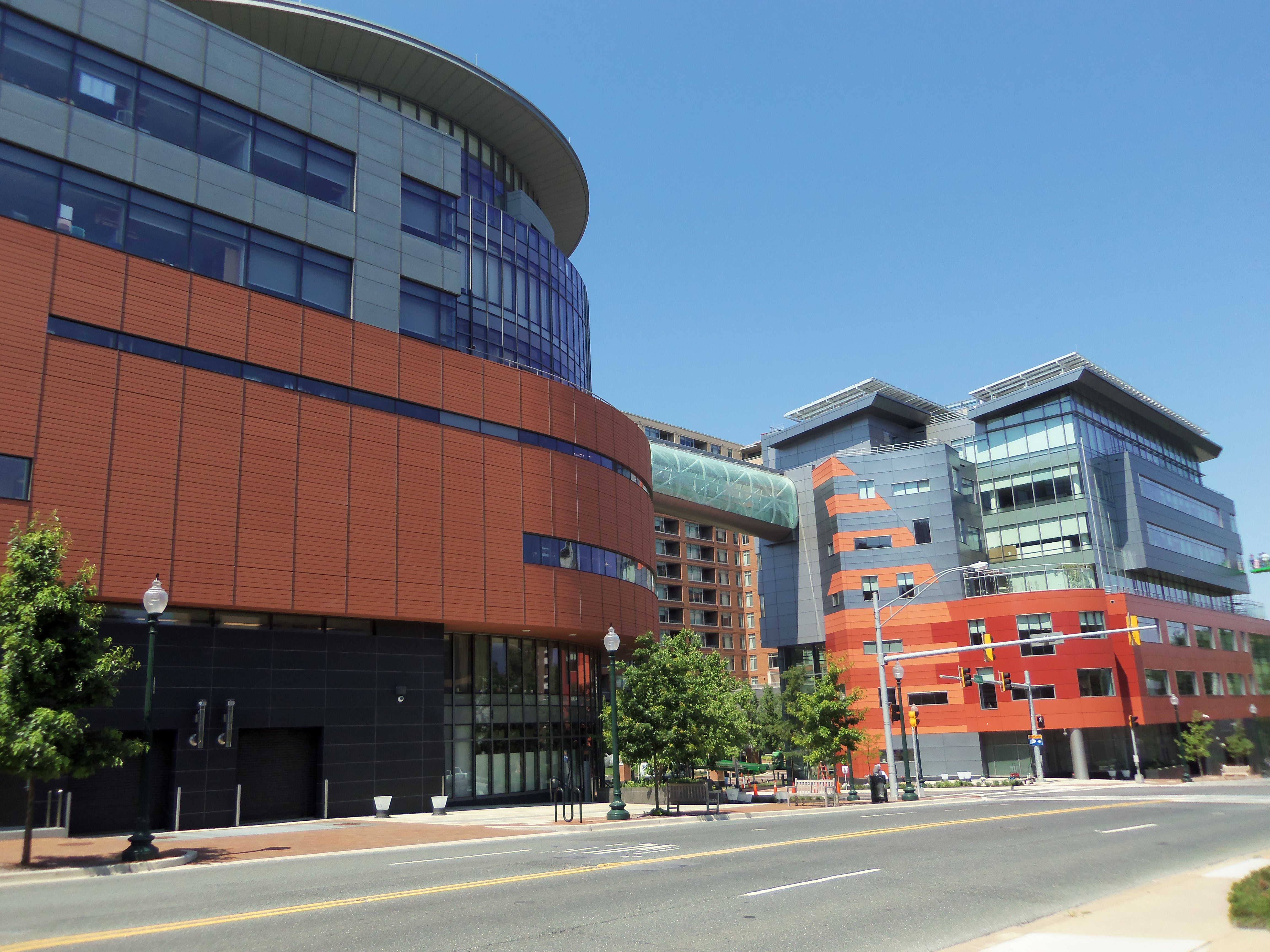 Headquarters and Laboratory Complex of United Therapeutics in downtown Silver Spring, Maryland